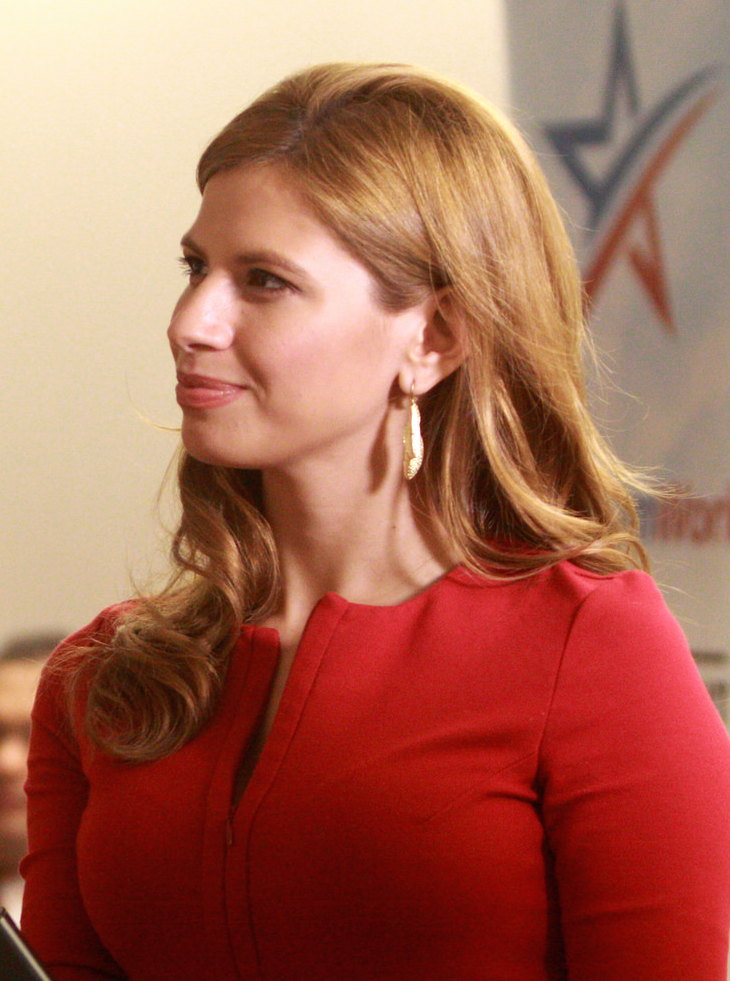 Michelle Fields speaking at the 2013 Young Americans for Liberty National Convention at George Mason University in Arlington, Virginia.